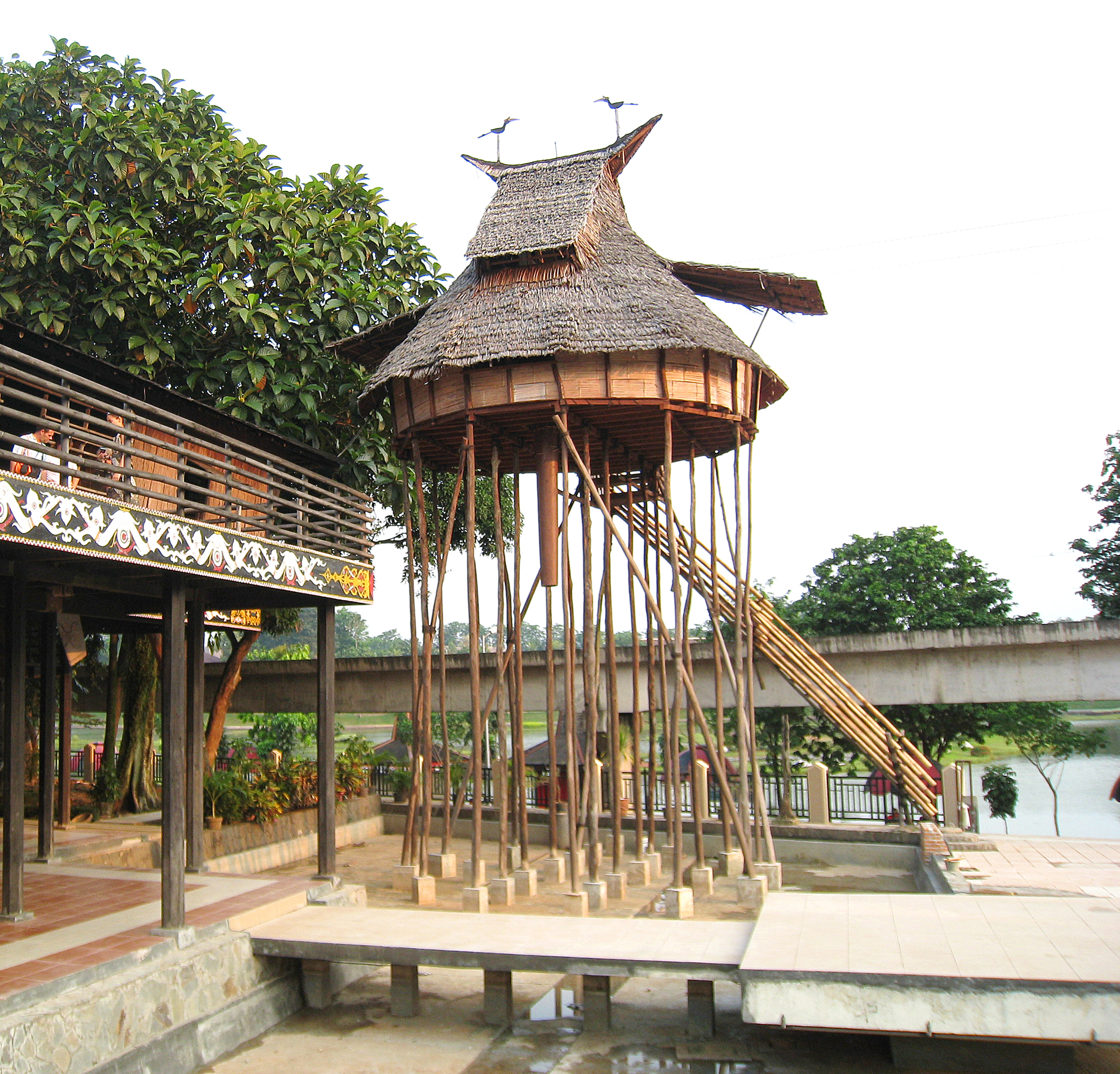 The Baluk house stands high on wooden poles, West Kalimantan pavilion, Taman Mini Indonesia Indah, Jakarta.